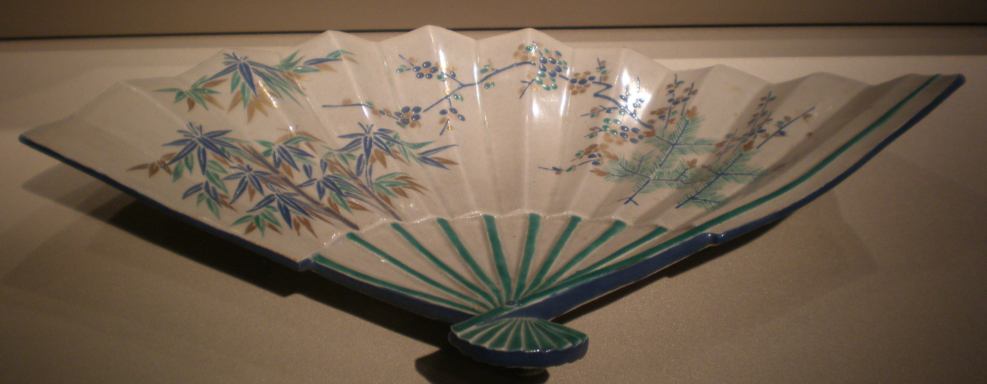 Fan-shaped plate, Kiyomizu ware, from Kyoto, approx. 1700-1800. On display at the Asian Art Musem of San Francisco. B62P17